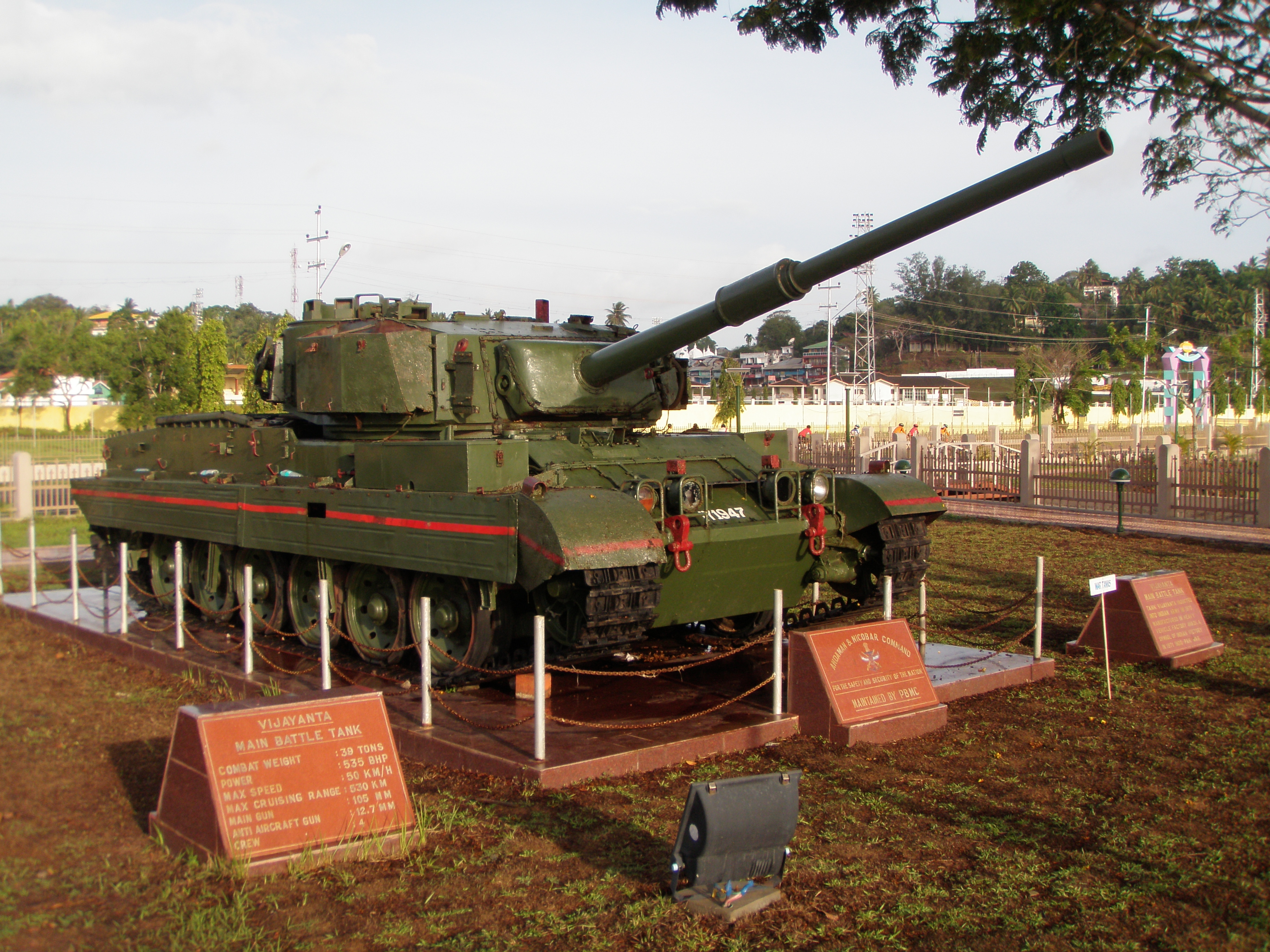 Vijayanta - a decommissioned main battle tank, made by India, kept in the Marina Park, Port Blair of Andaman.